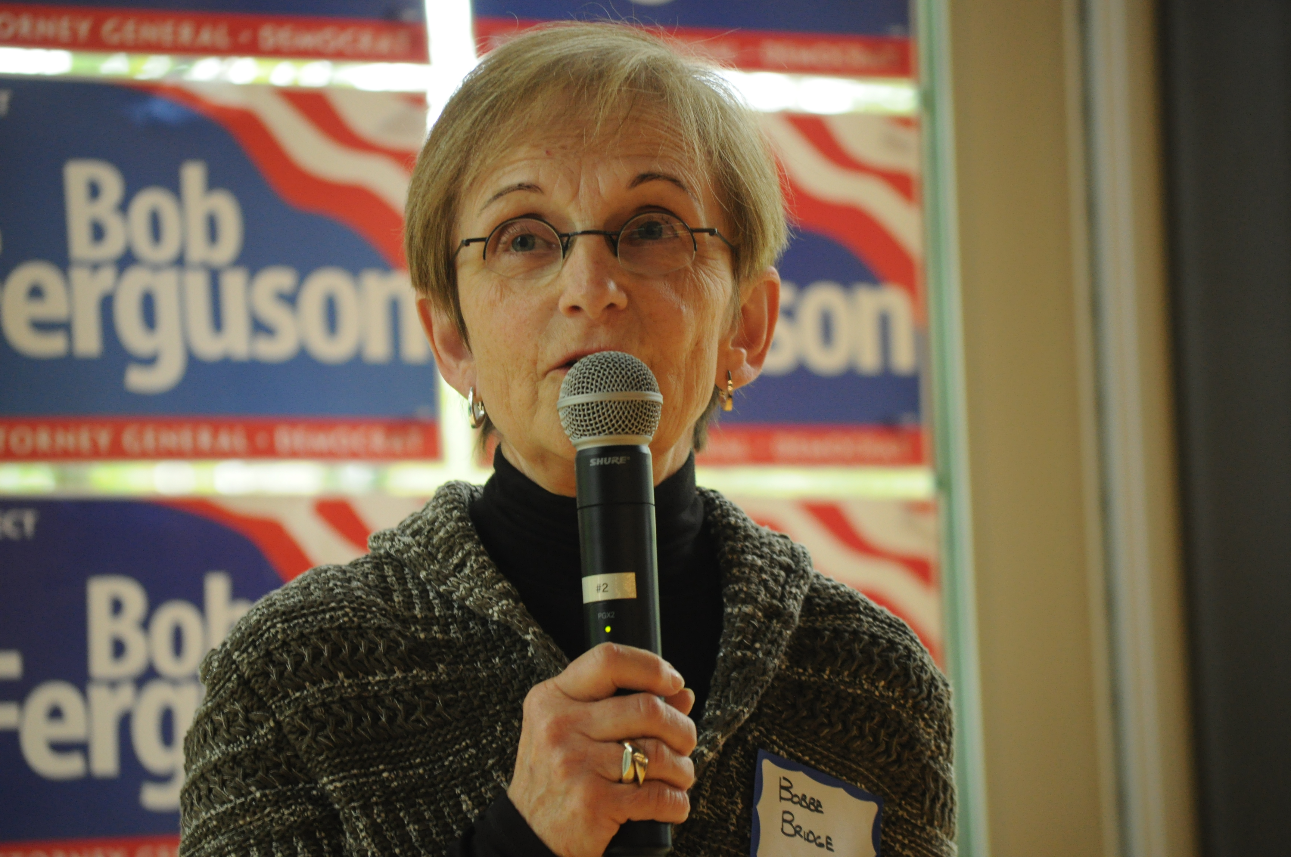 Bobbe Bridge, former Associate Justice of the Washington Supreme Court, founding president and current CEO of the Seattle-based Center for Children & Youth Justice, speaking at Bob Ferguson's 6th Annual Shrimp Feed, Northgate Community Center, Seattle, Washington.